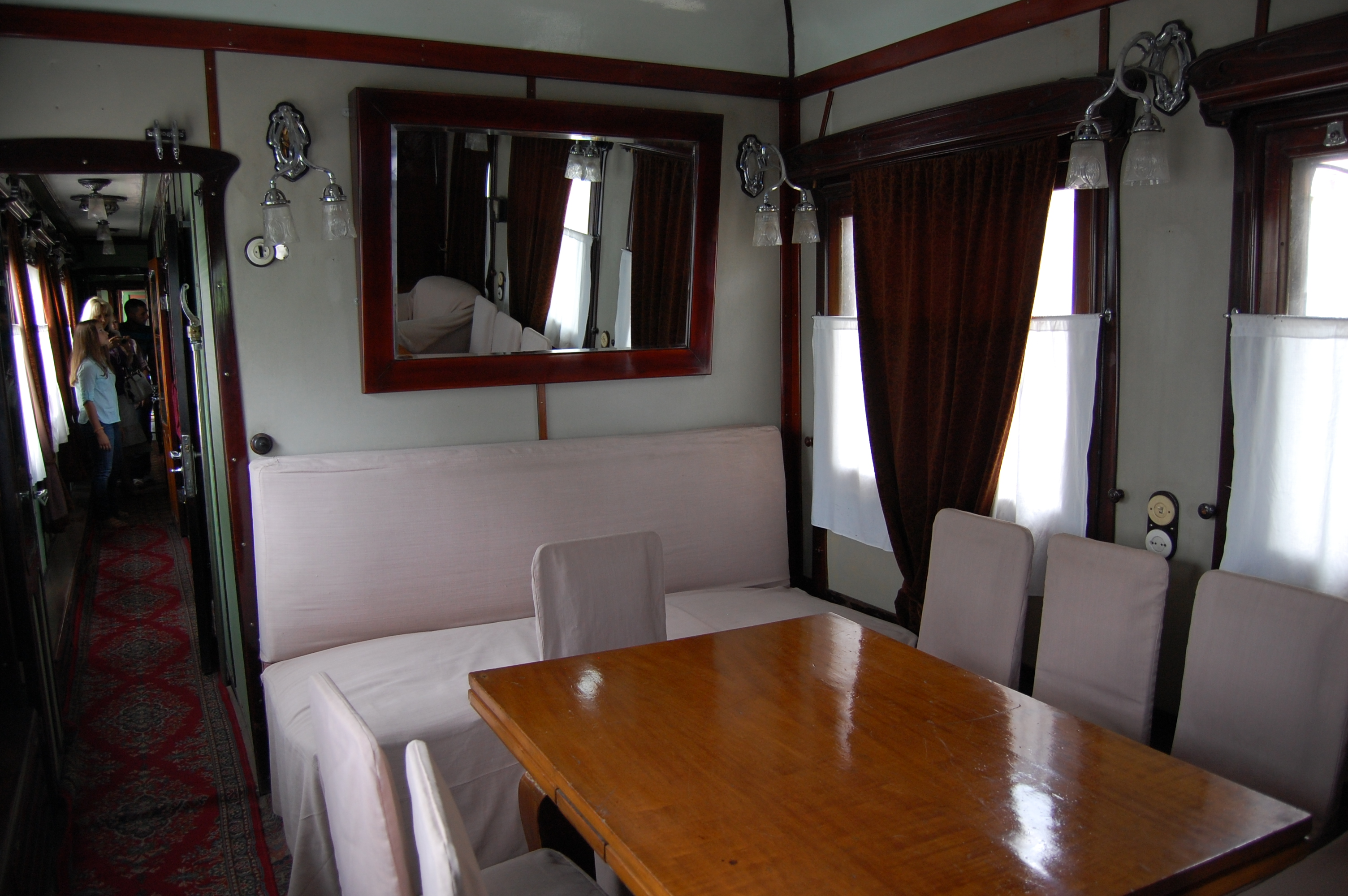 Gori - Stalin's railway carriage Georgia - Sakartvelo